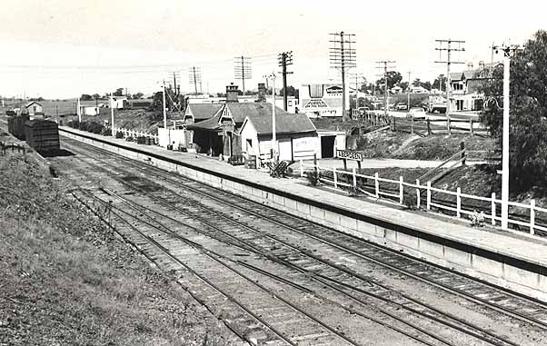 Aberdeen Railway Station Dated: c. 31/12/1958 Digital ID: 17420_a014_a014000781 Rights: We'd love to hear from you if you use our photos. Many other photos in our collection are available to view and browse on our website using Photo Investigator.